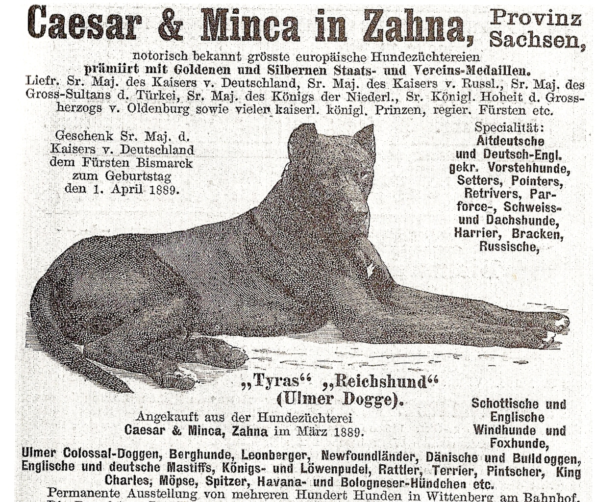 Advertisement for dogs showing „Tyras“, a dog given by Wilhelm II. to Bismarck as a birth day present in 1889